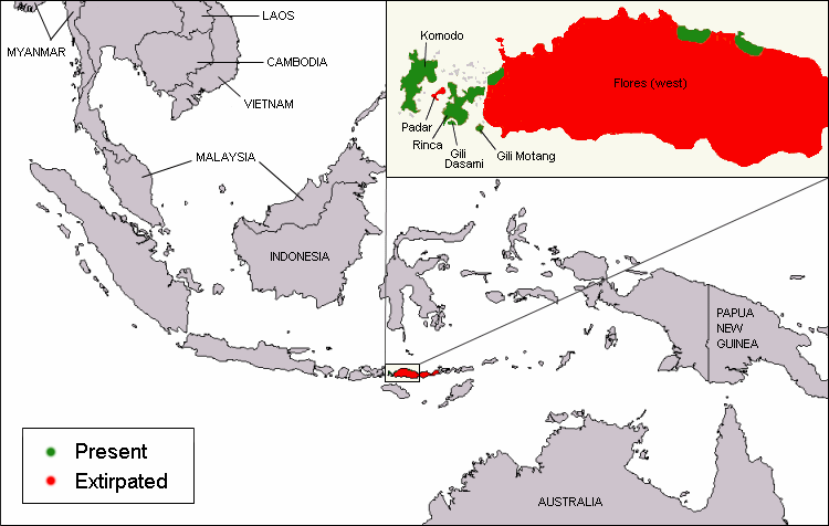 Commons:Category:Varanus komodoensis Commons:Category:Distribution maps